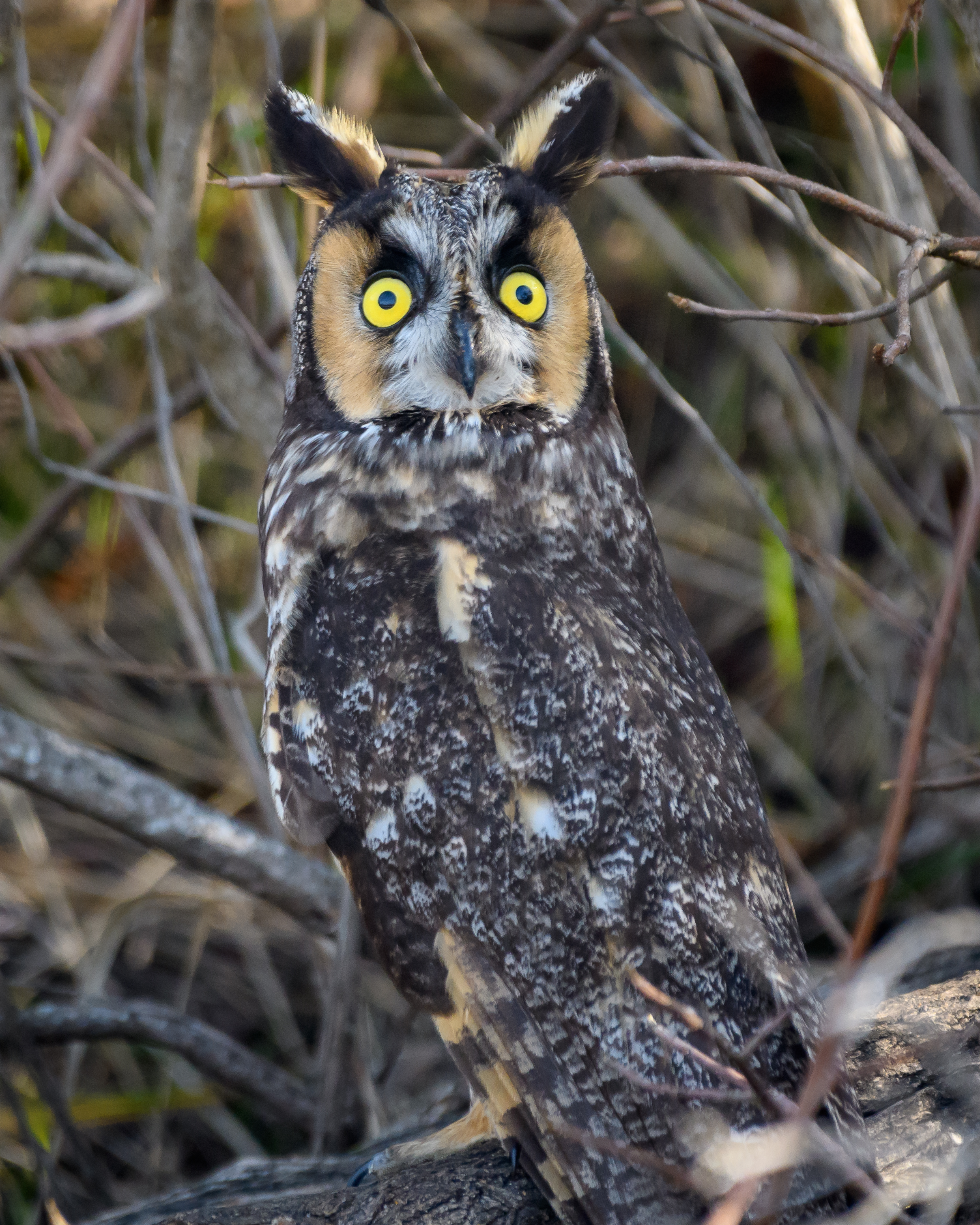 Dotson Family Marsh, Point Pinole Regional Shoreline, Richmond, California